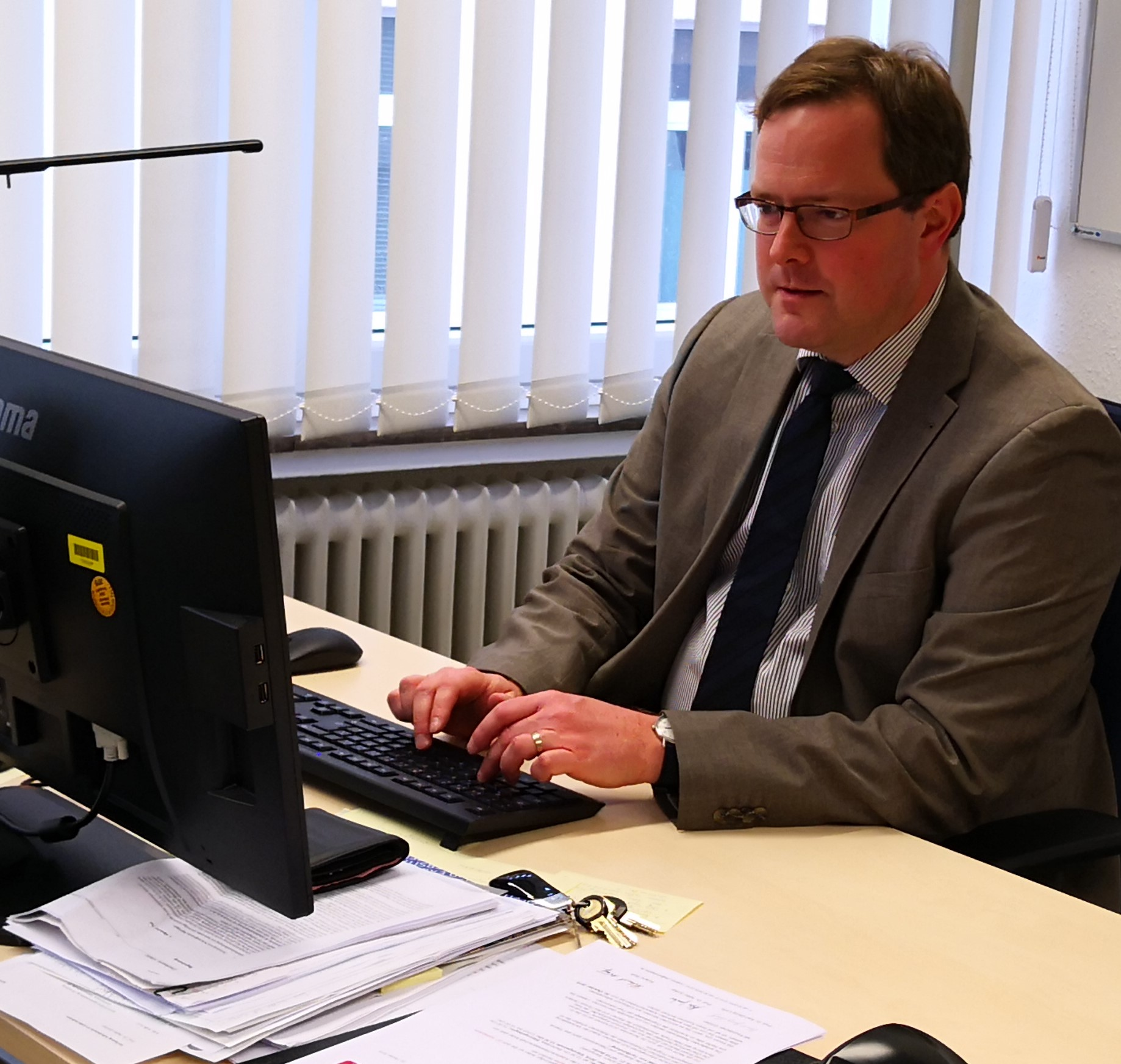 Stefan Greiner (2019)